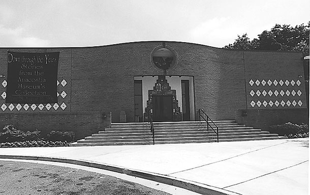 Black and white photo of the Anacostia Museum in Washington, D.C.